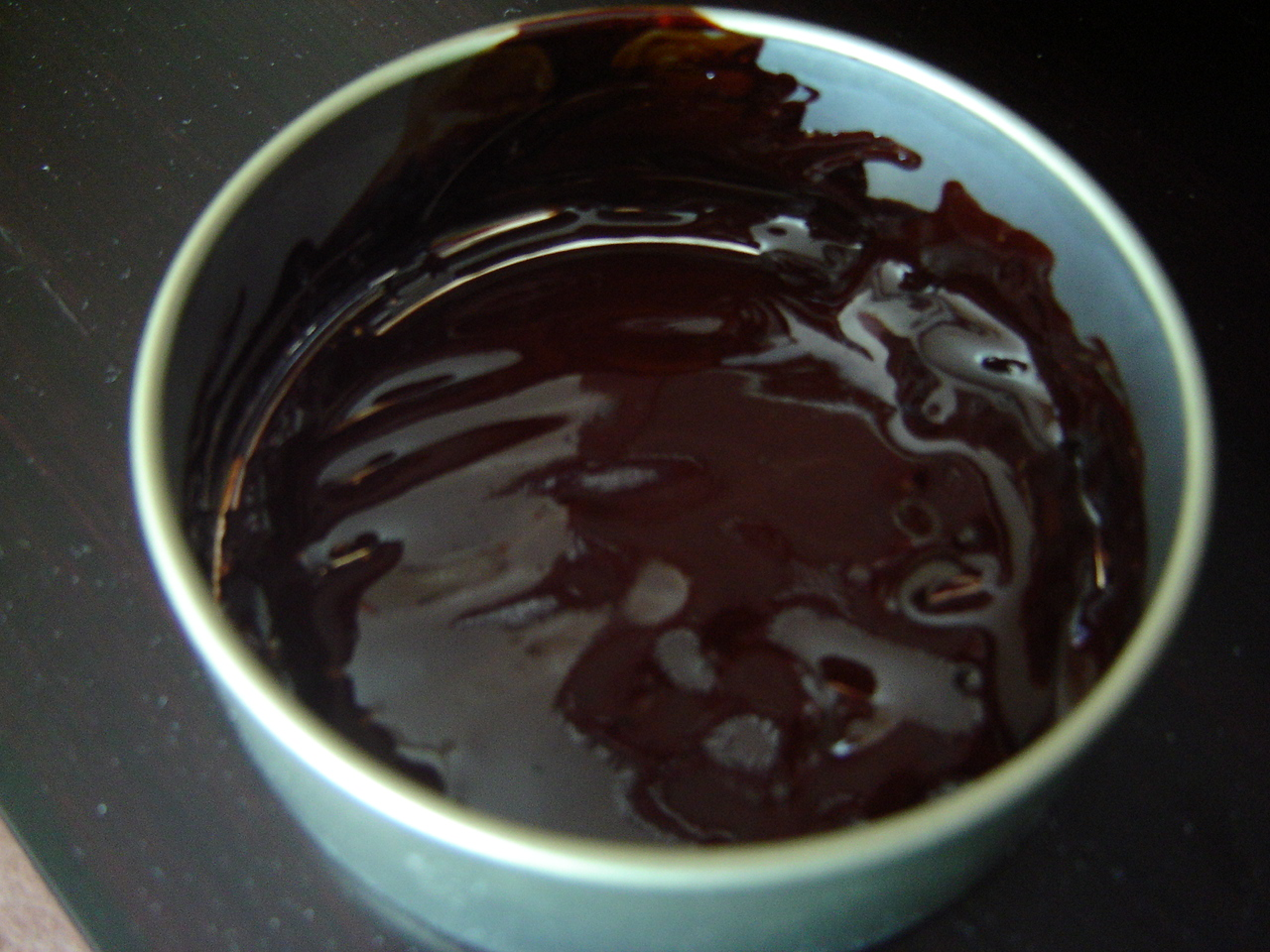 Photo of lacquer in liquid form, mixed with water and turpentine. UK, 2006 (original comment).